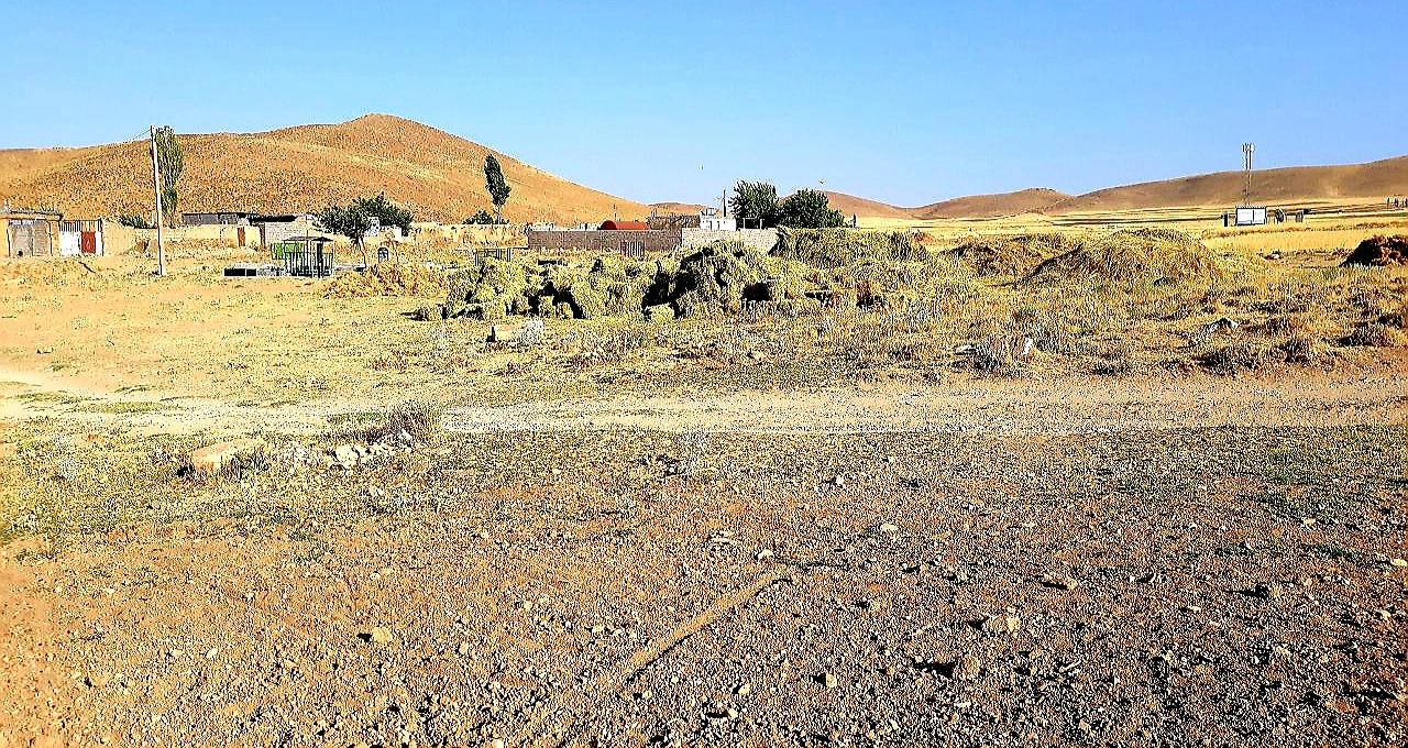 Maimanatabad